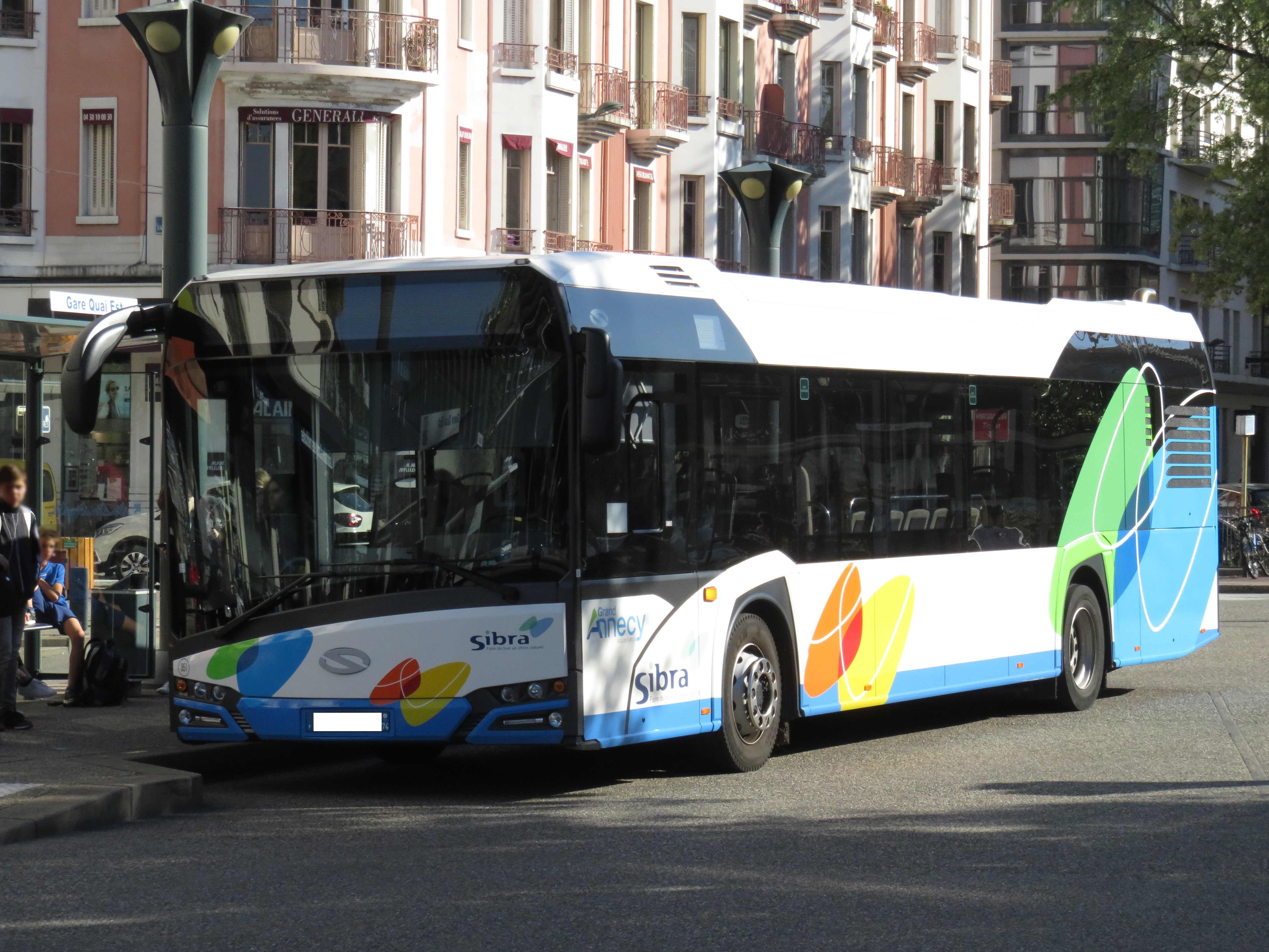 A Solaris Urbino 12 IV (n°351 of Transdev Haute-Savoie) stopped at the call Gare Quai Ouest (Annecy, France) on October 4, 2018.